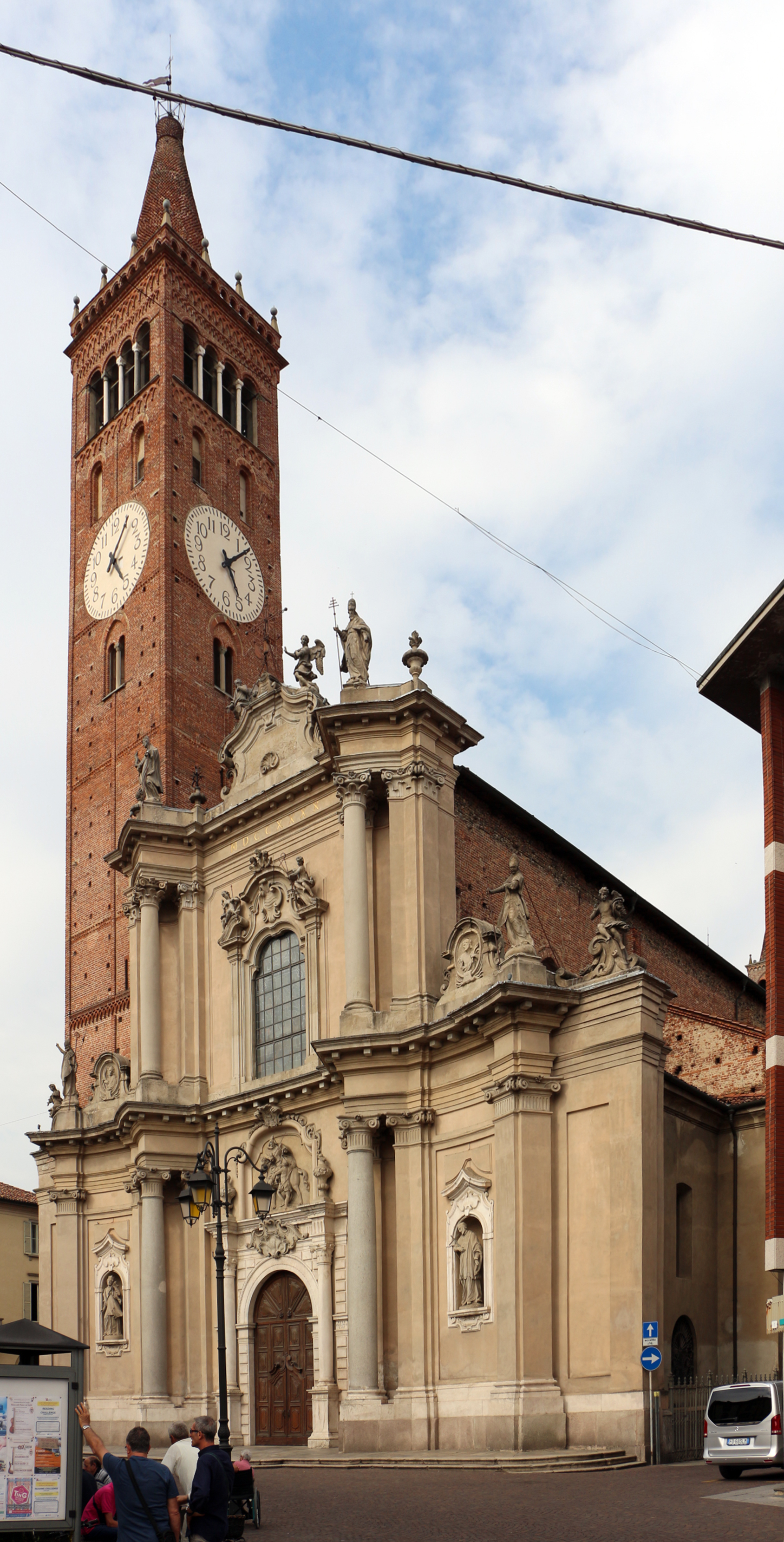 San Martino (Treviglio)